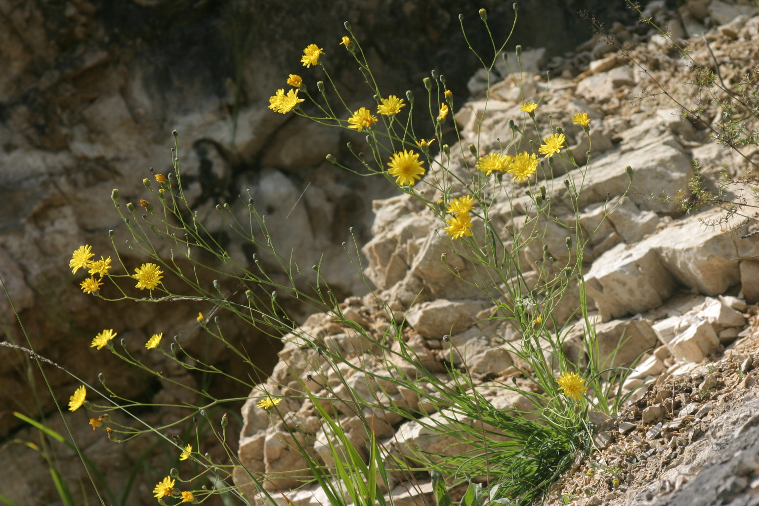 Hieracium porrifolium